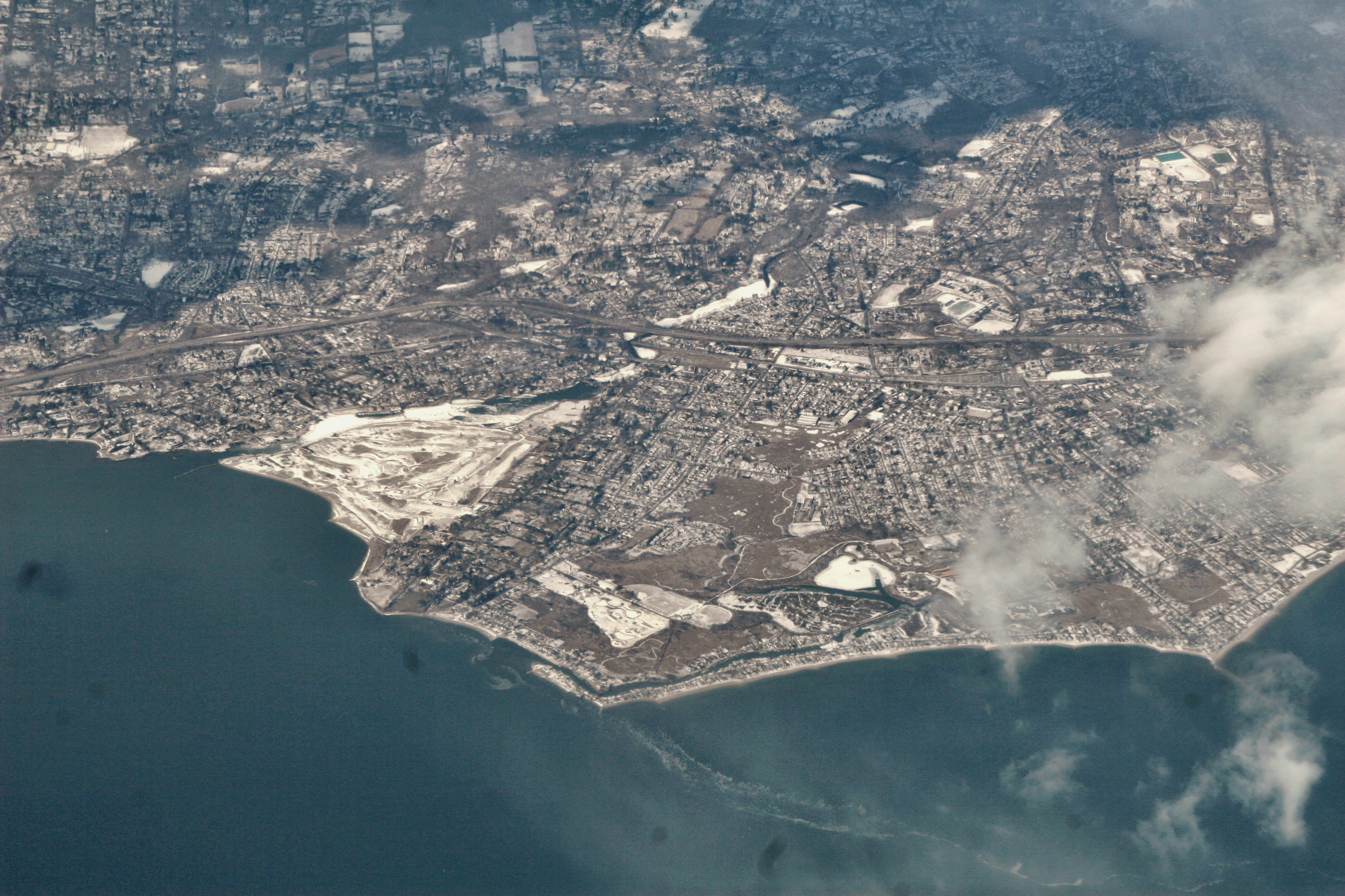 Aerial view of Fairfield, Connecticut. The near points are Pine Creek and Shoal.